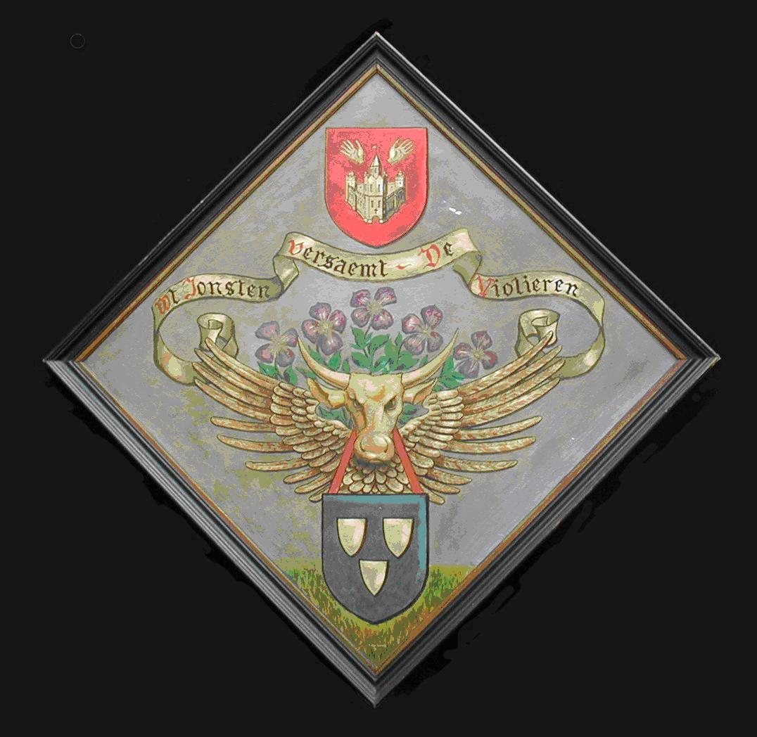 Weapon of de Violieren anno 1887